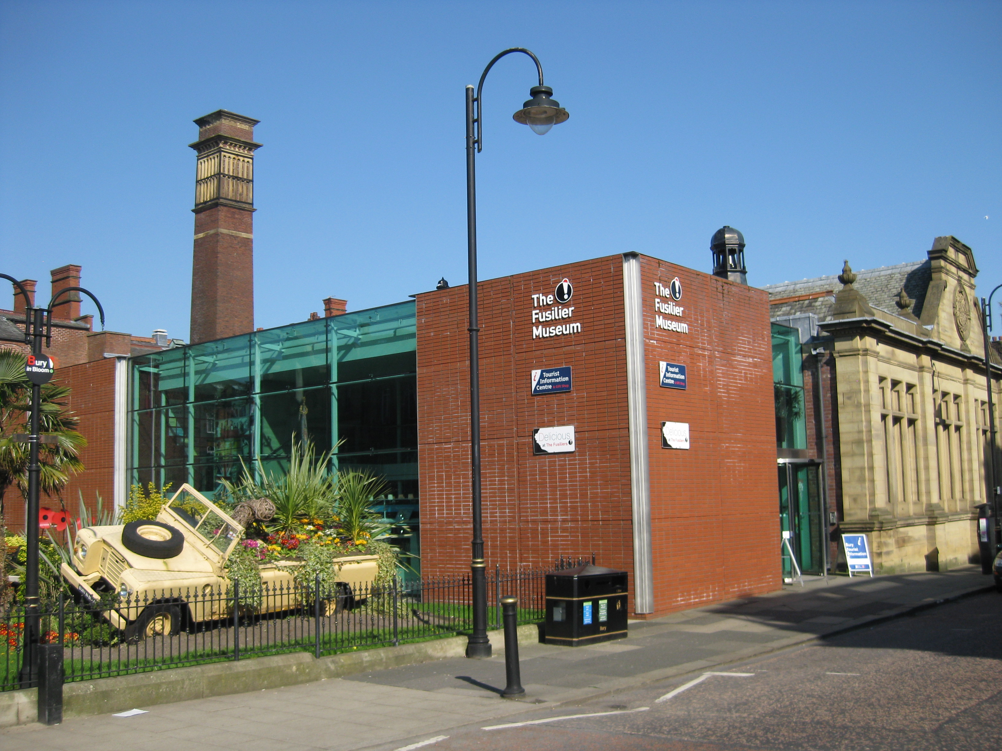 The Fusilier Museum, Moss Street,Bury, BL9 0DF. Main entrance. Outside is a flower bed in a military Landrover. To the rear is a former dust vent chimney.